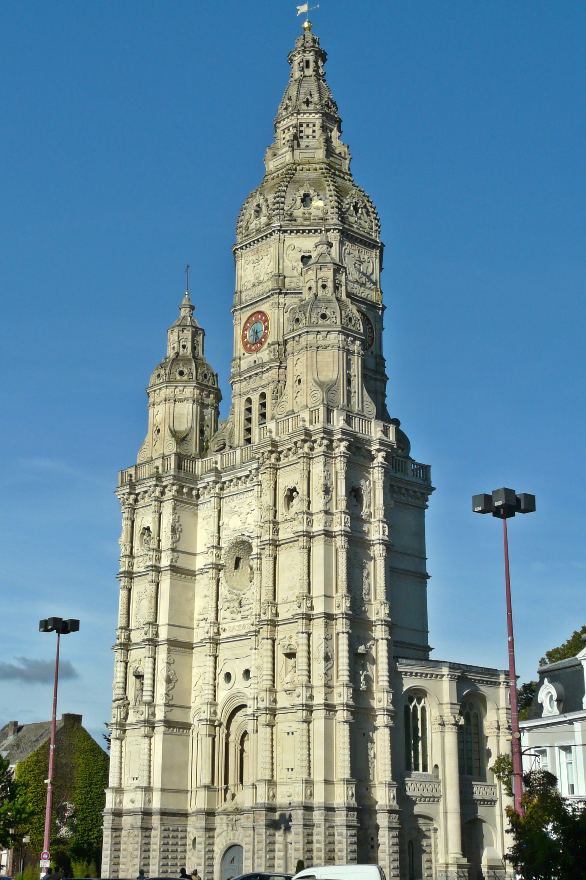 Abbey tower in Saint-Amand-les-Eaux, Nord department, France